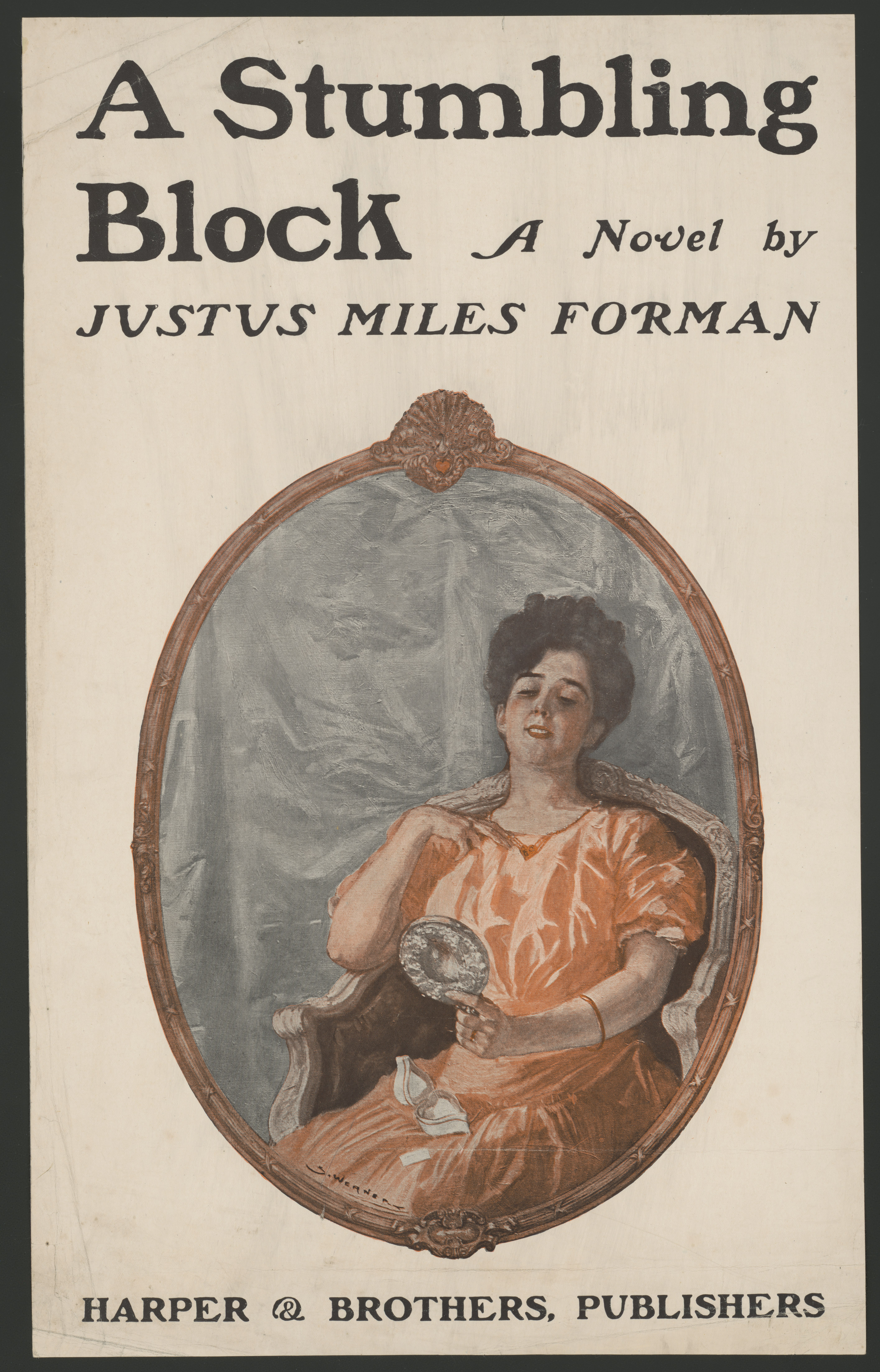 Title: A Stumbling Block, a novel by Justus Miles Norman Abstract/medium: 1 print : color ; sheet 55 x 34 cm (poster format)